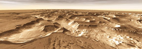 Image of Noctis Vista, Mars, from 2001 Mars Odyssey Thermal Emission Imaging System; JPL Press Release 2010-411; PIA13655